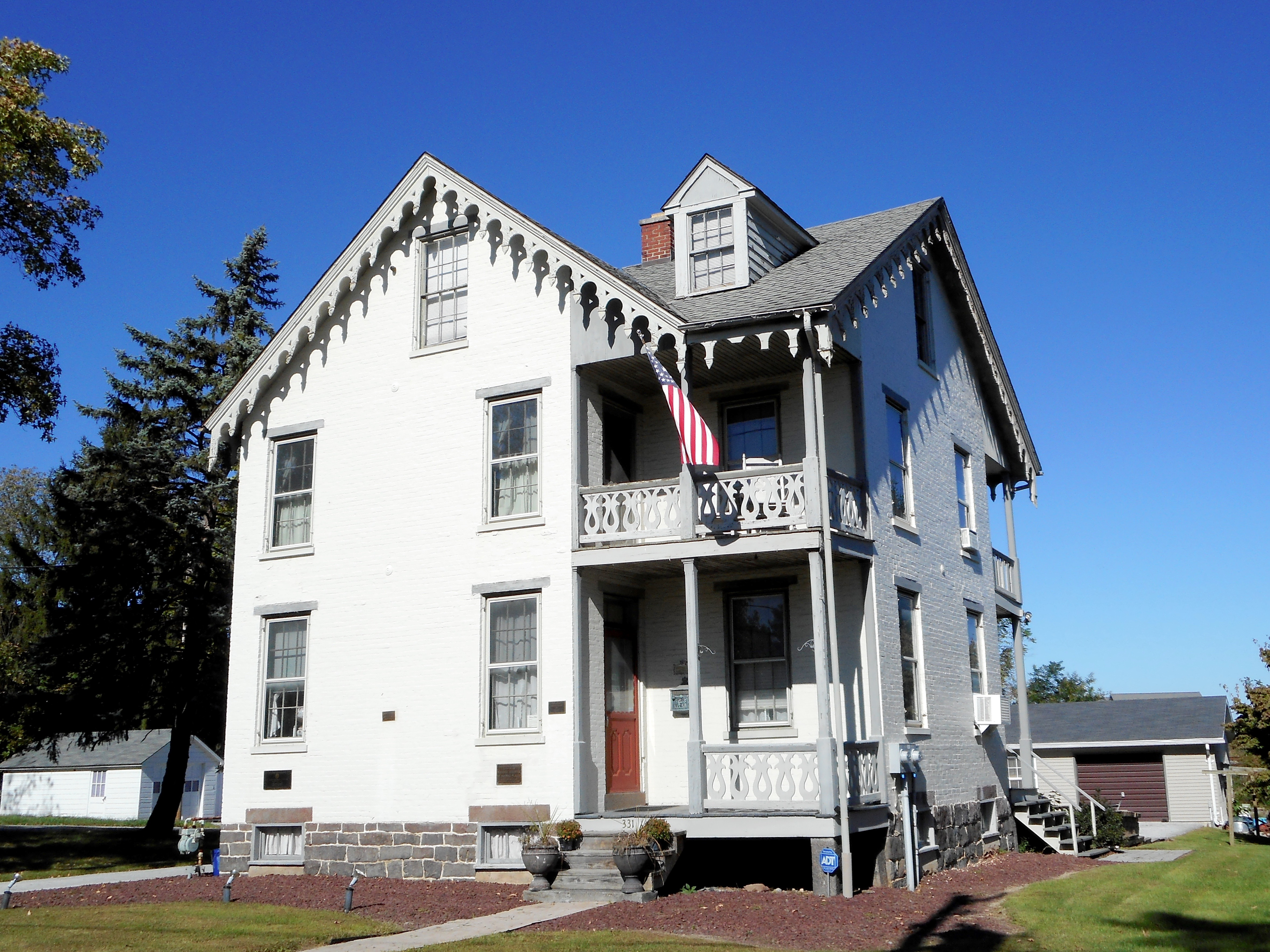 Sheads House in Gettysburg, Pennsylvania on the Chambersburg Pike (US 30). Listed on the NRHP